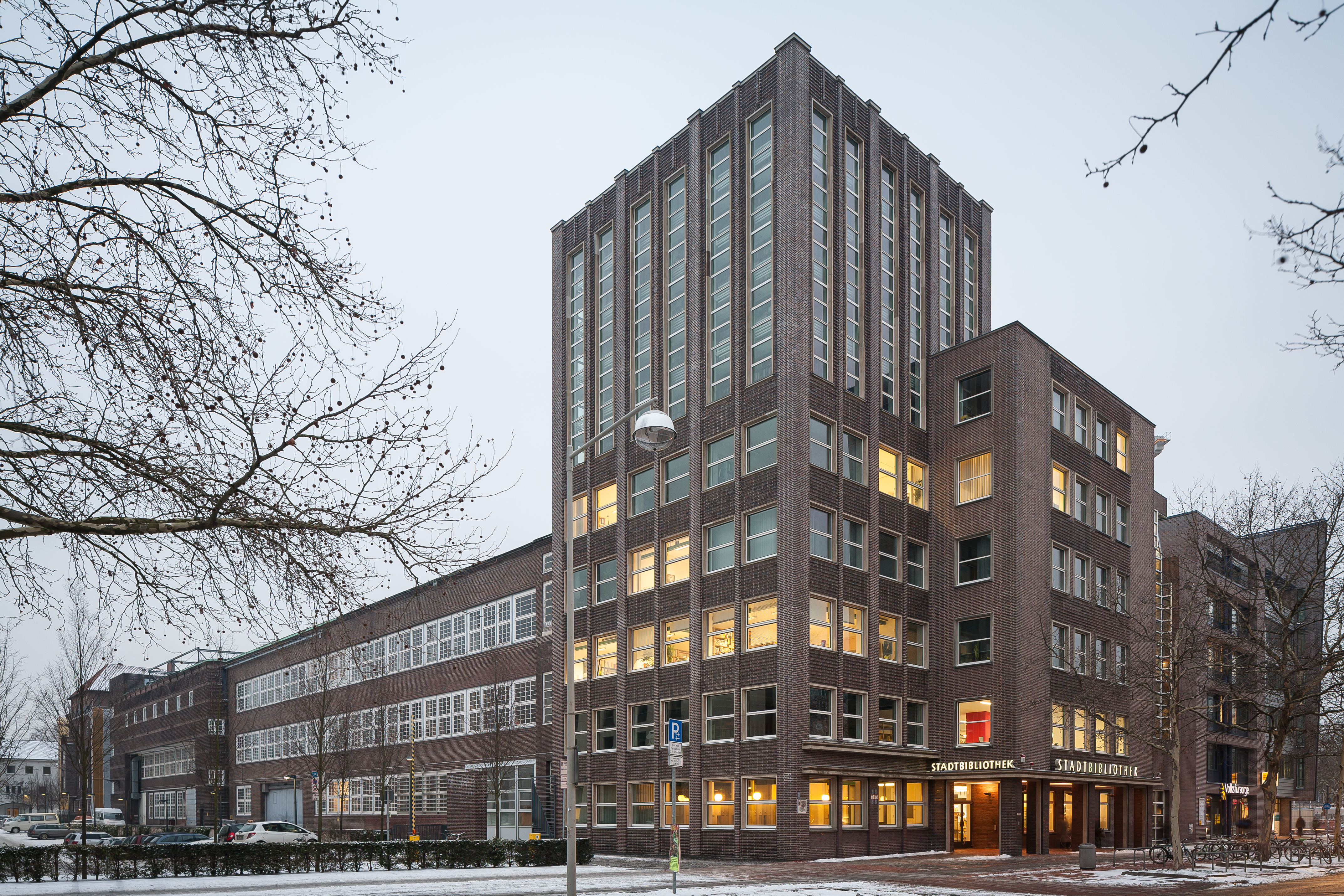 Public library of Hannover located at Hildesheimer Strasse no. 12 in Suedstadt quarter of Hannover, Germany.